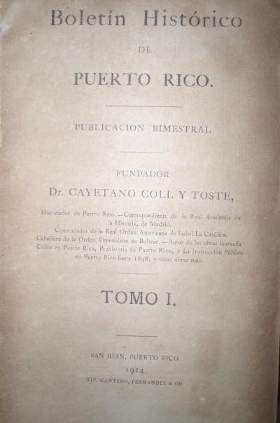 Book